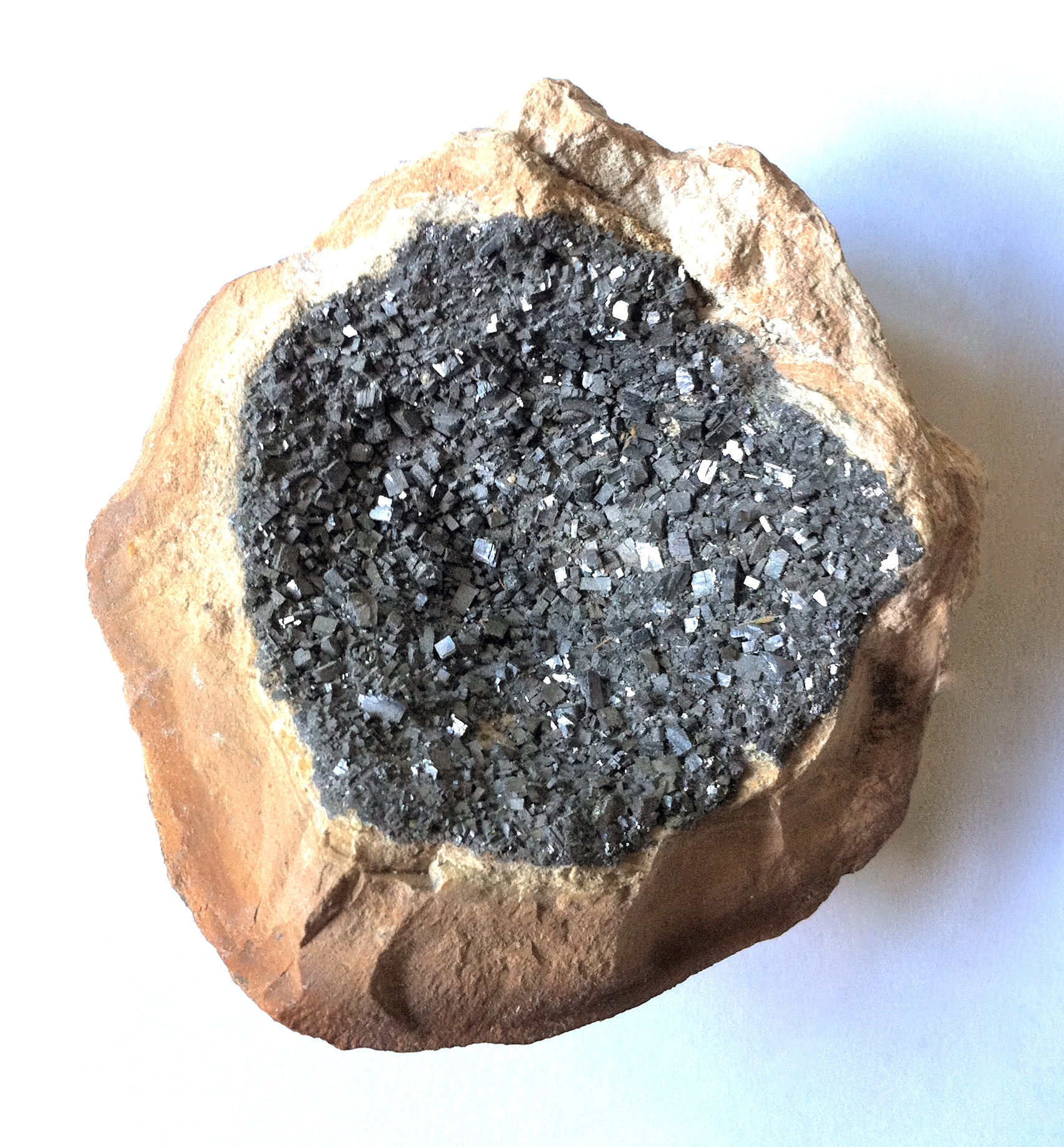 Fake geode of galena Geode bought in Marrakech (Marroco) in a market. These fake are very common in Marroco and seem to be part of a real industry of fake stones. This geode is in reality a real geode recovered with galena.